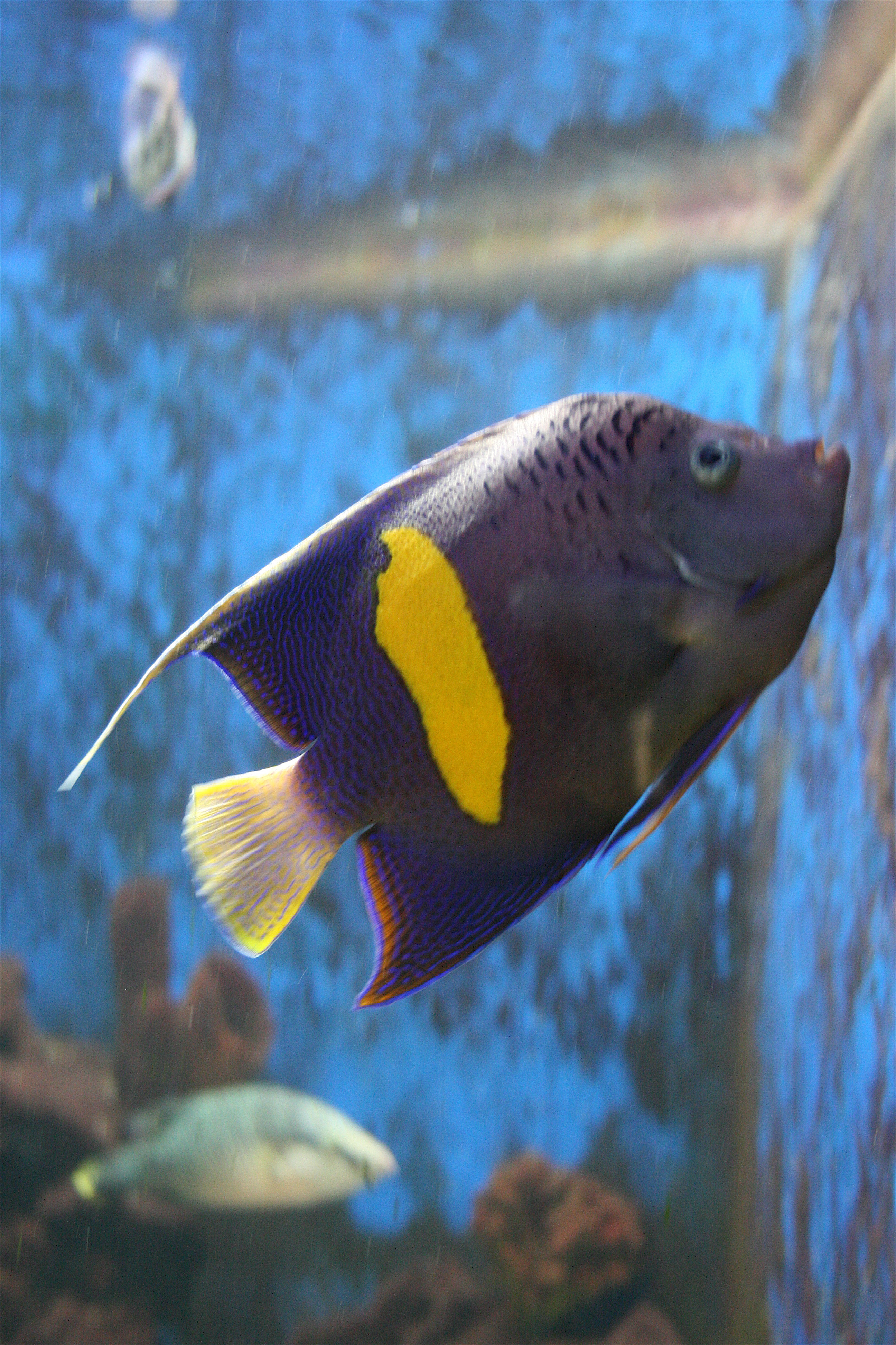 Yellow Bar Angelfish (Pomacanthus maculosus) at the Toledo Zoo in Toledo, OH.